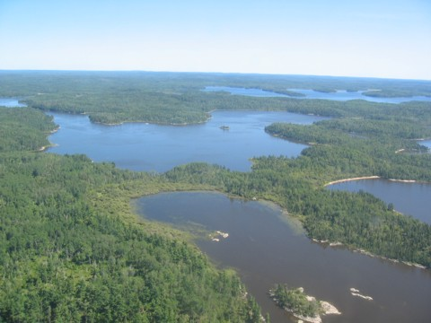 I took this arial shot while in a plane traveling to Minaki during the Forth of July Week 2006